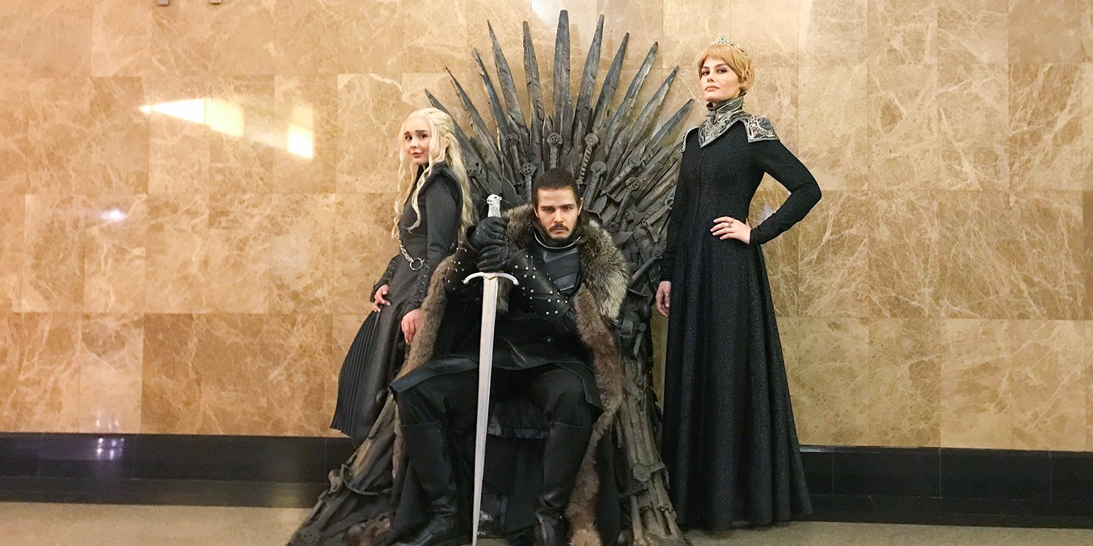 Iron Throne from the Game of Thrones installed in the Moscow Metro